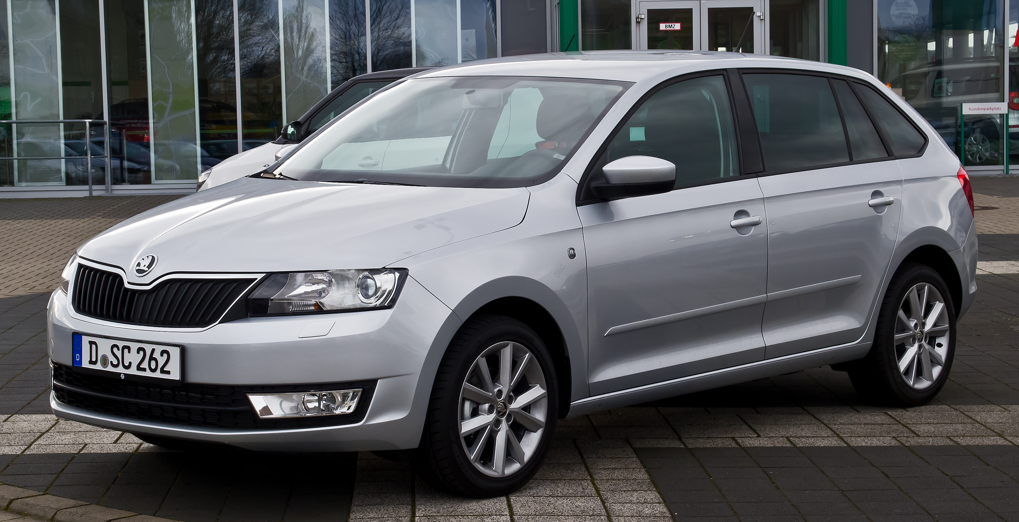 Skoda Rapid Spaceback 1.2 TSI Style Plus